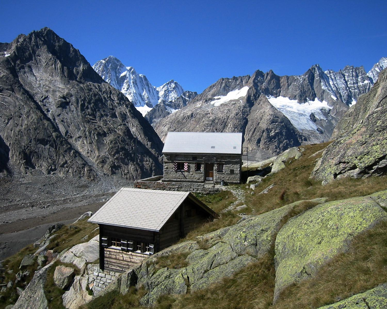 Lauteraarhütte over the Unteraar Glacier (covered by debris). The high white mountain in the background is the Finsteraarhorn.